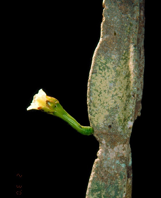 Holotype collection, Goias, Brasil